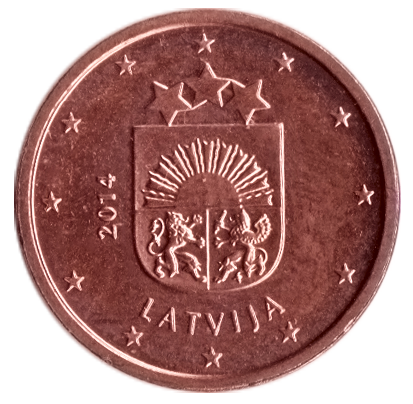 Latvian euro cent coin featuring Coat of arms of Latvia